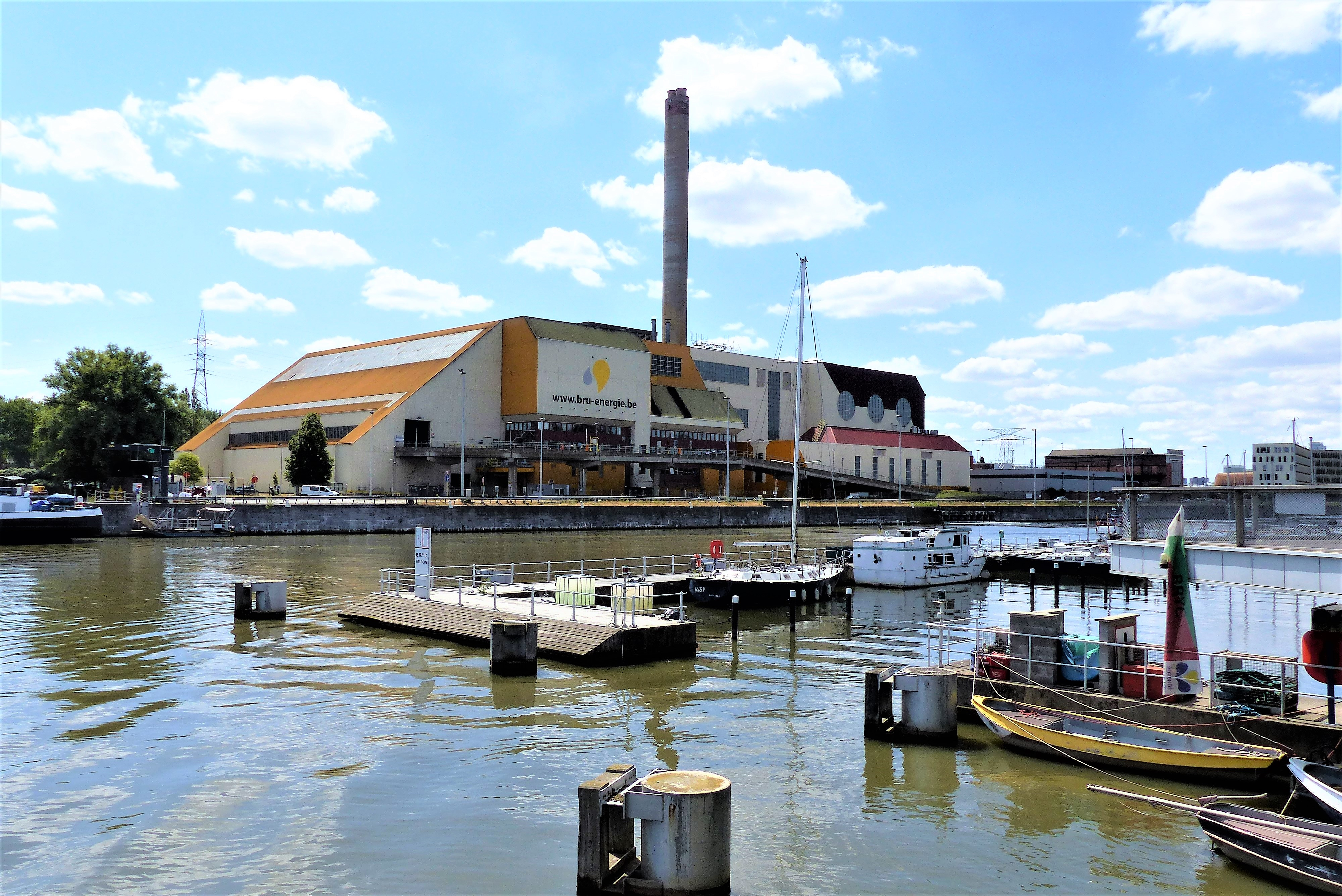 Evere: Bruxelles Energie, Canal of Brussels, marina.